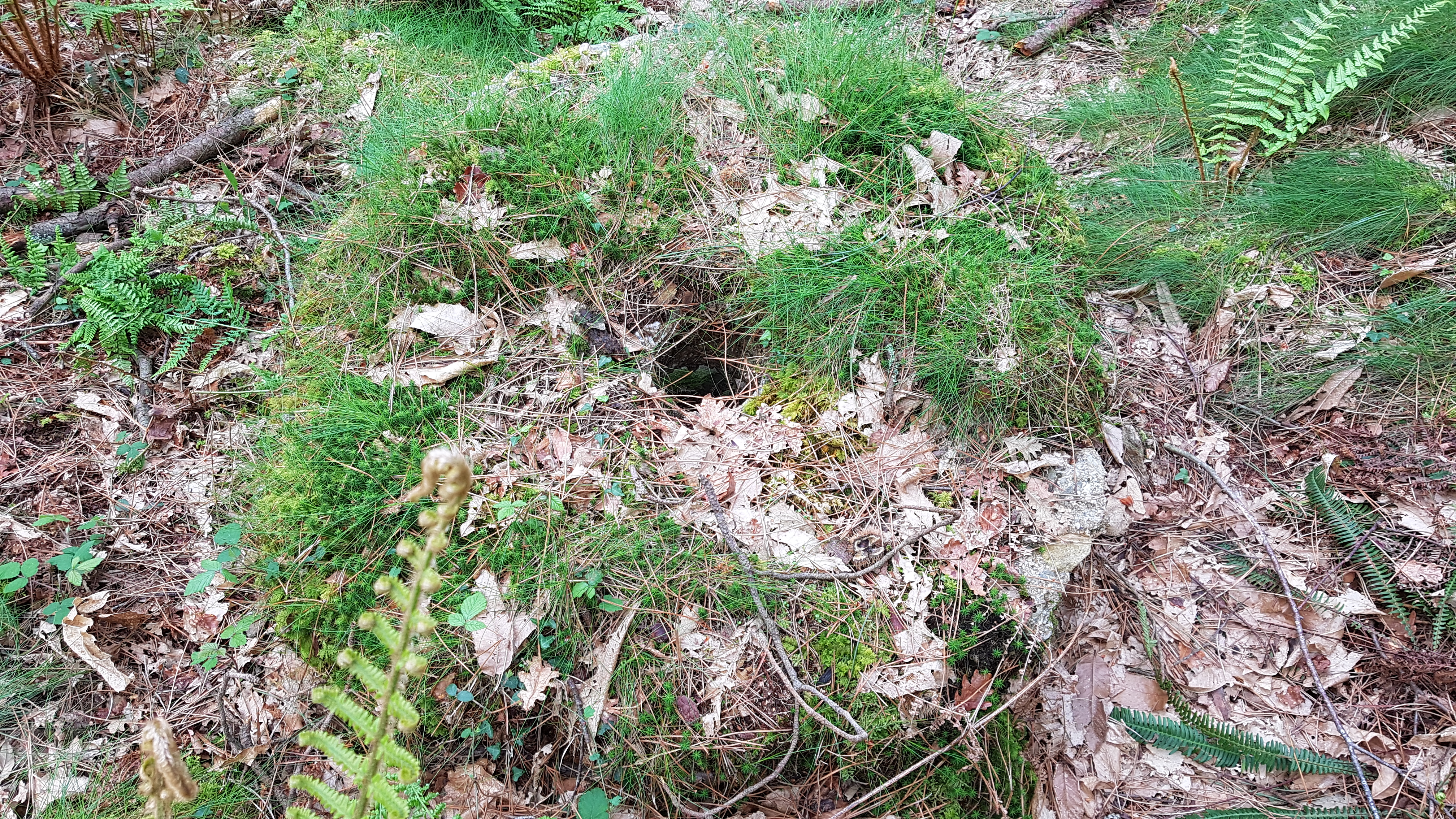 Unfinished millstone with central hole covered by moss and tree litter in the Andatza mountain of Usurbil (Basque Country)